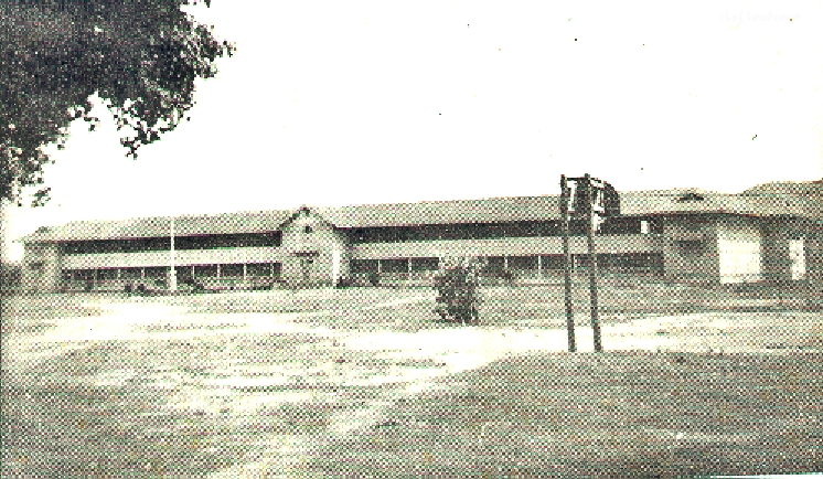 visuttharangsi school on thalor